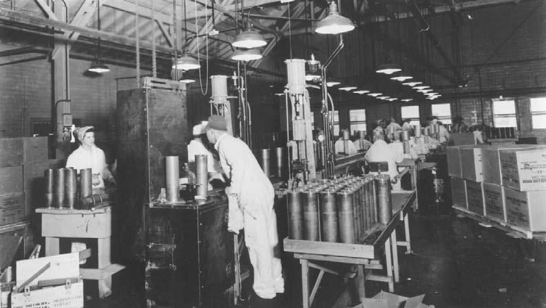 Conventional bomb lines during WWII. Pantex Ordnance Plant, Amarillo, Texas.